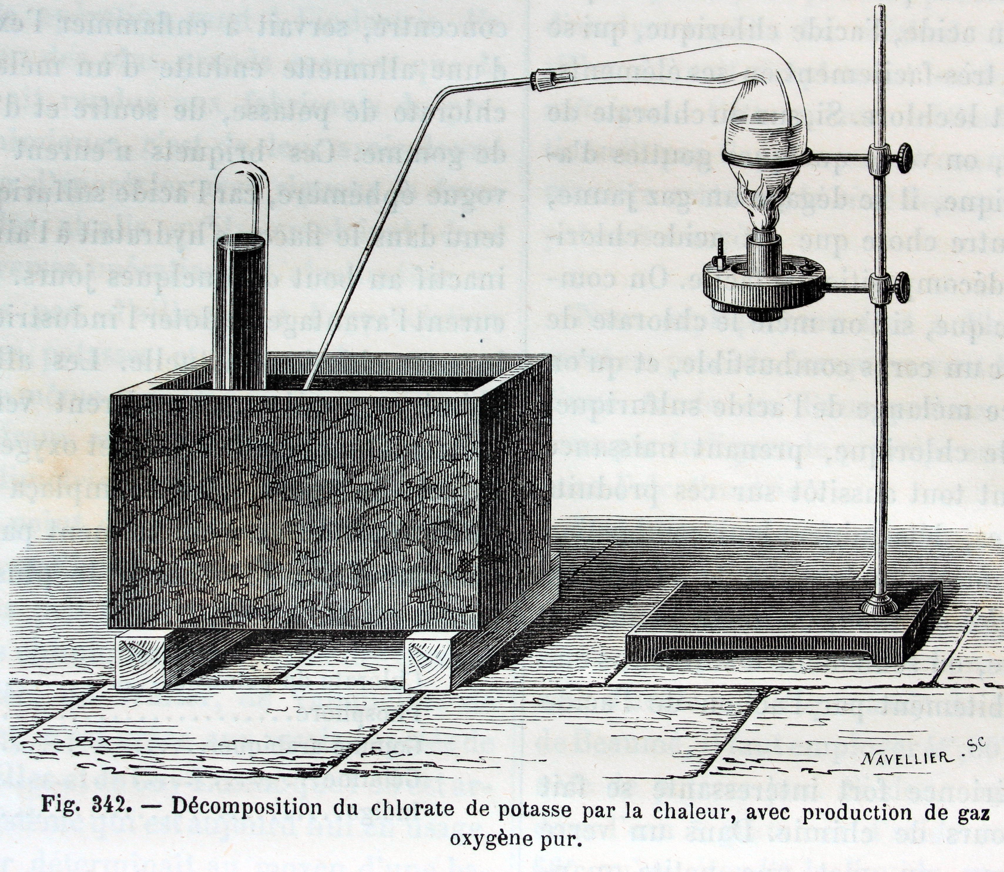 "Decomposition of potassium chlorate by means of heat, with the production of pure oxygen gas"